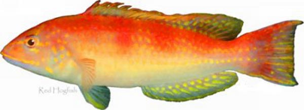 The red hogfish, Decodon puellaris, a medium-sized wrasse occurring on deep coral reefs feeds on small crabs, shrimps, and other bottom-dwelling invertebrates.